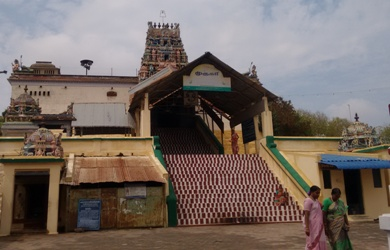 Karurvennamalaimurugantemple கரூர்வெண்ணெய்மலைமுருகன்கோயில்